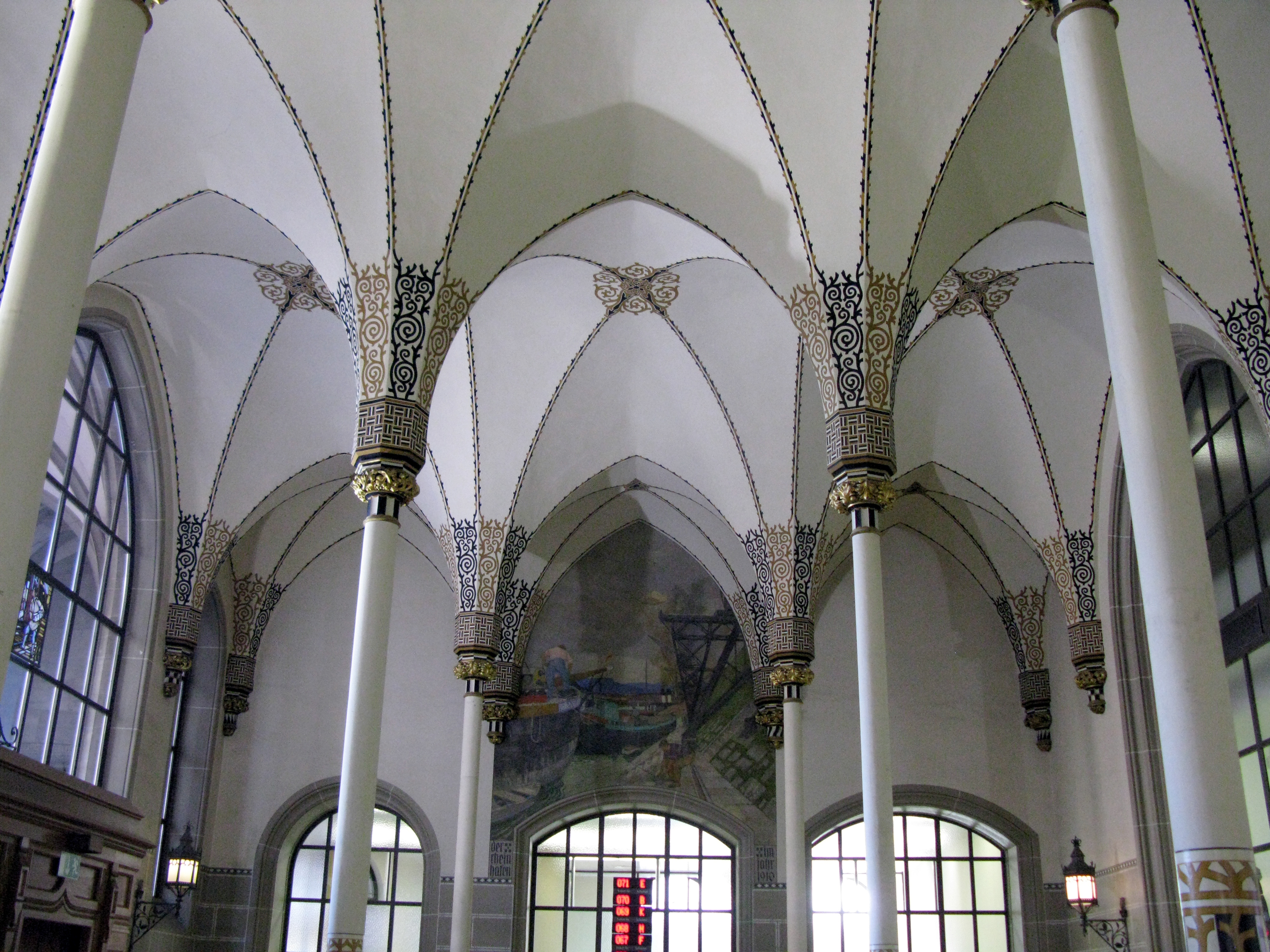 general post office, interior view